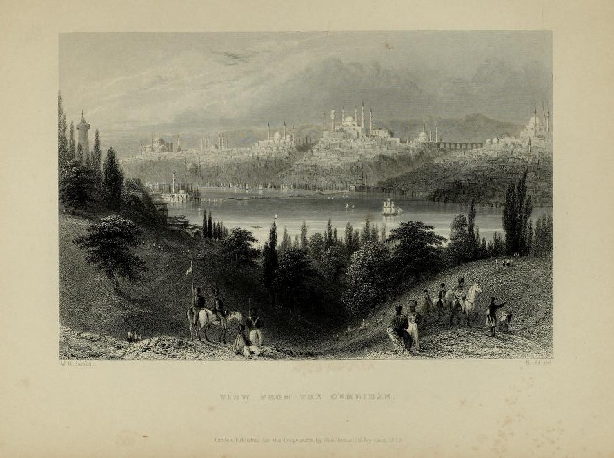 View from Okmeydanı, Şişli between 1809-1838